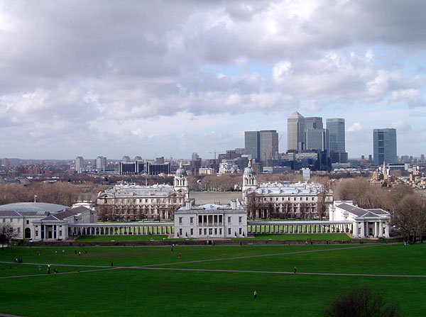 The Greenwich Hospital, with the Queen's House in the foreground Image by ChrisO